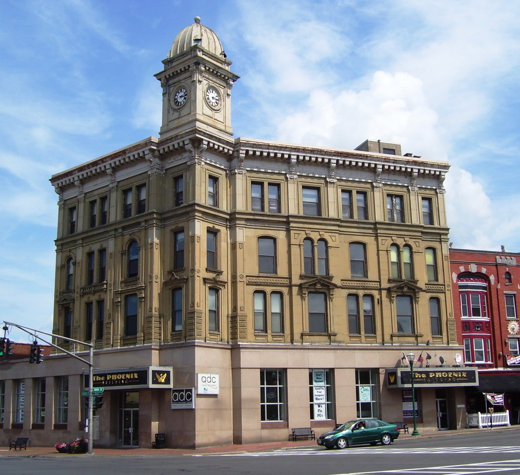 The Phoenix Building on South Street at the corner of Genesee Street in Auburn, New York was built in 1905. (Source: [1])